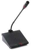 DIS Portable Microphone unit DM 6010 P